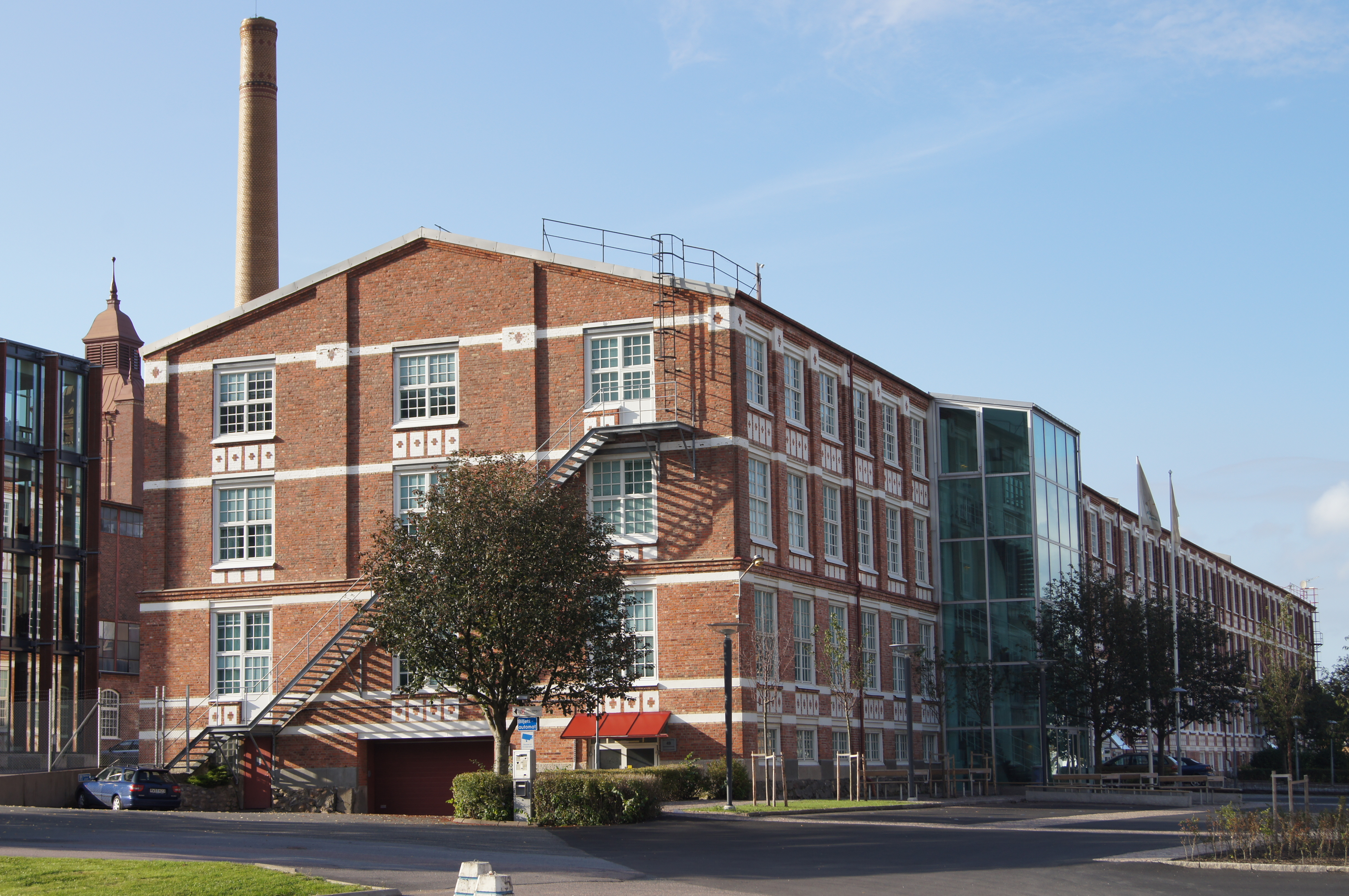 Krokslätts fabriker